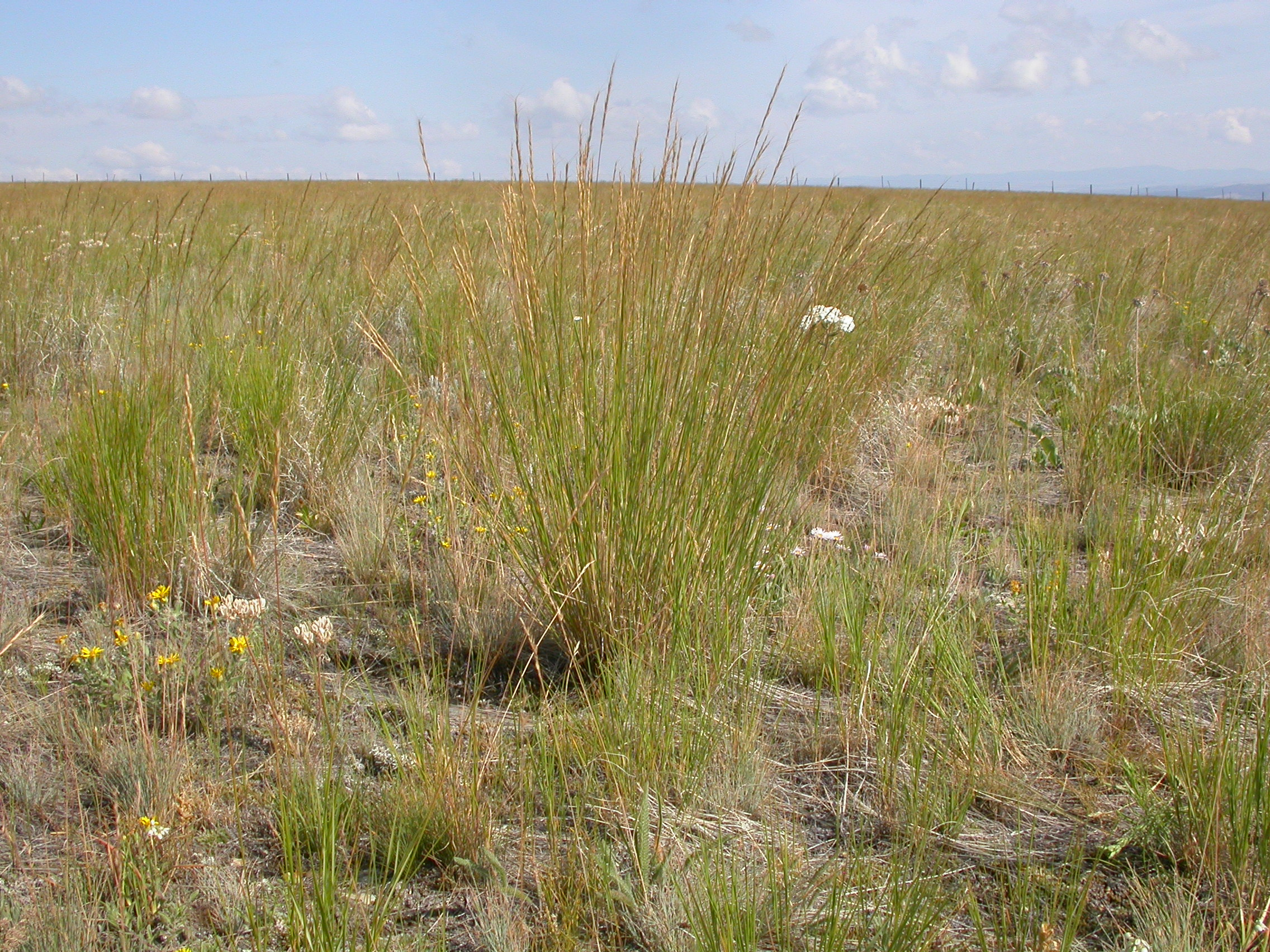 Bluebunch wheatgrass is typically the tallest and most loosely bunched of the most abundant bunchgrasses in steppe vegetation of Montana (e.g., compared to prairie jungrass and Idaho fescue).